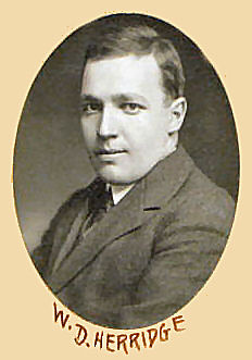 Date: 1912 Photographer: Park Bros Reference code: P446